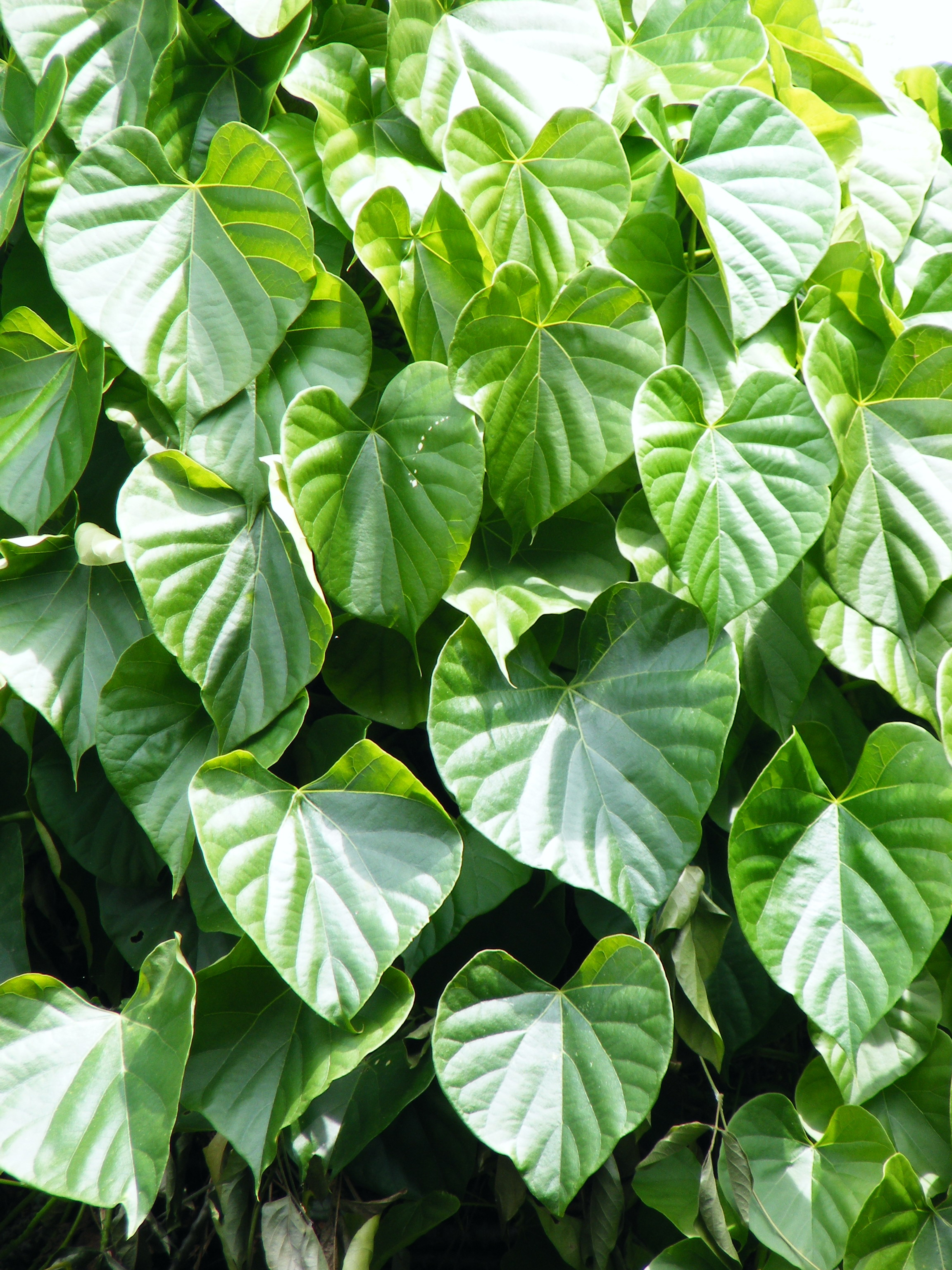 Leaves of T. cordifolia.